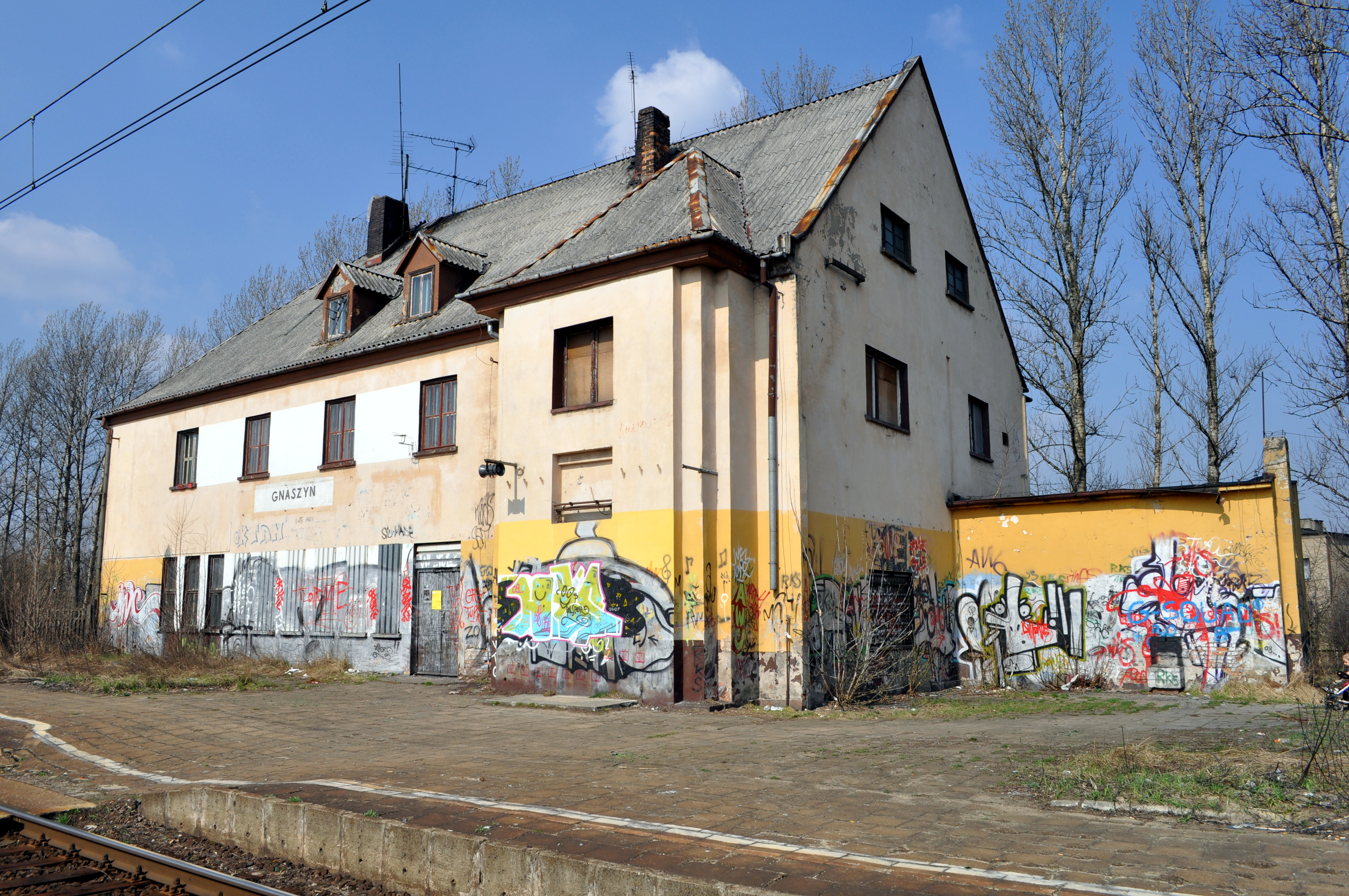 Częstochowa Gnaszyn train station